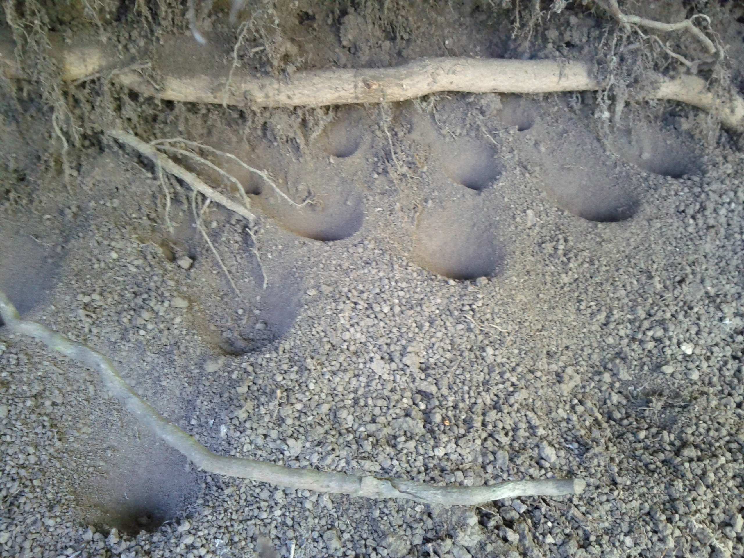 Antlion traps, Bisamberg near Vienna